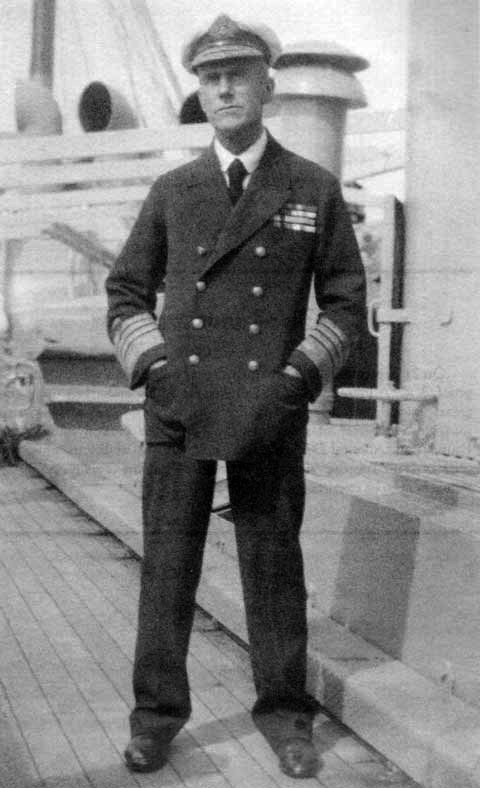 Admiral Sir Lewis Bayly, KCB, KCMG, CVO Commander in Chief, Western Approaches during the joint British-U.S. antisubmarine campaign in World War I